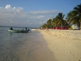 Trip my father and uncle to Beata Island.